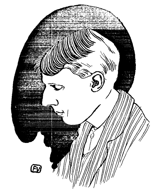 Portrait of English writer and illustrator Aubrey Beardsley (1872-1898) by Félix Valloton (1865-1925)